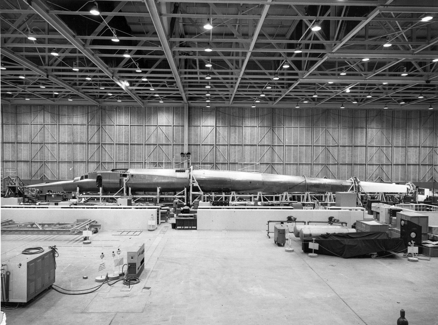 orth American XB-70A Valkyrie fuselage final assembly